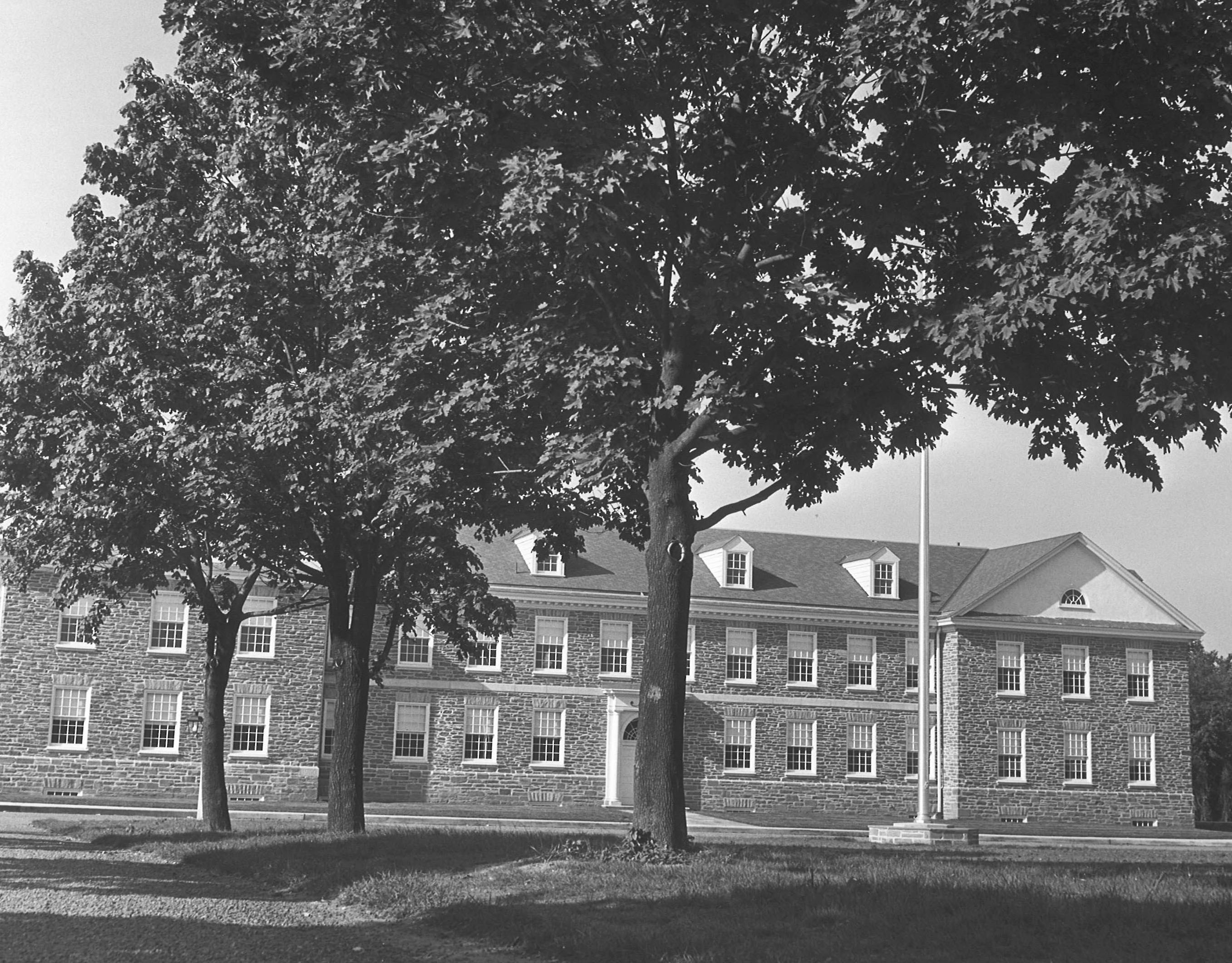 A view of McLean Hall, named after Fort washington campus donor, Robert L. McLean.